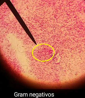 Cocos gram negativos (color rojo-rosado) muestra observada con lente 100x en el laboratorio de biología celular de la Universidad de las Fuerzas Armadas ESPE Sangolquí-Ecuador